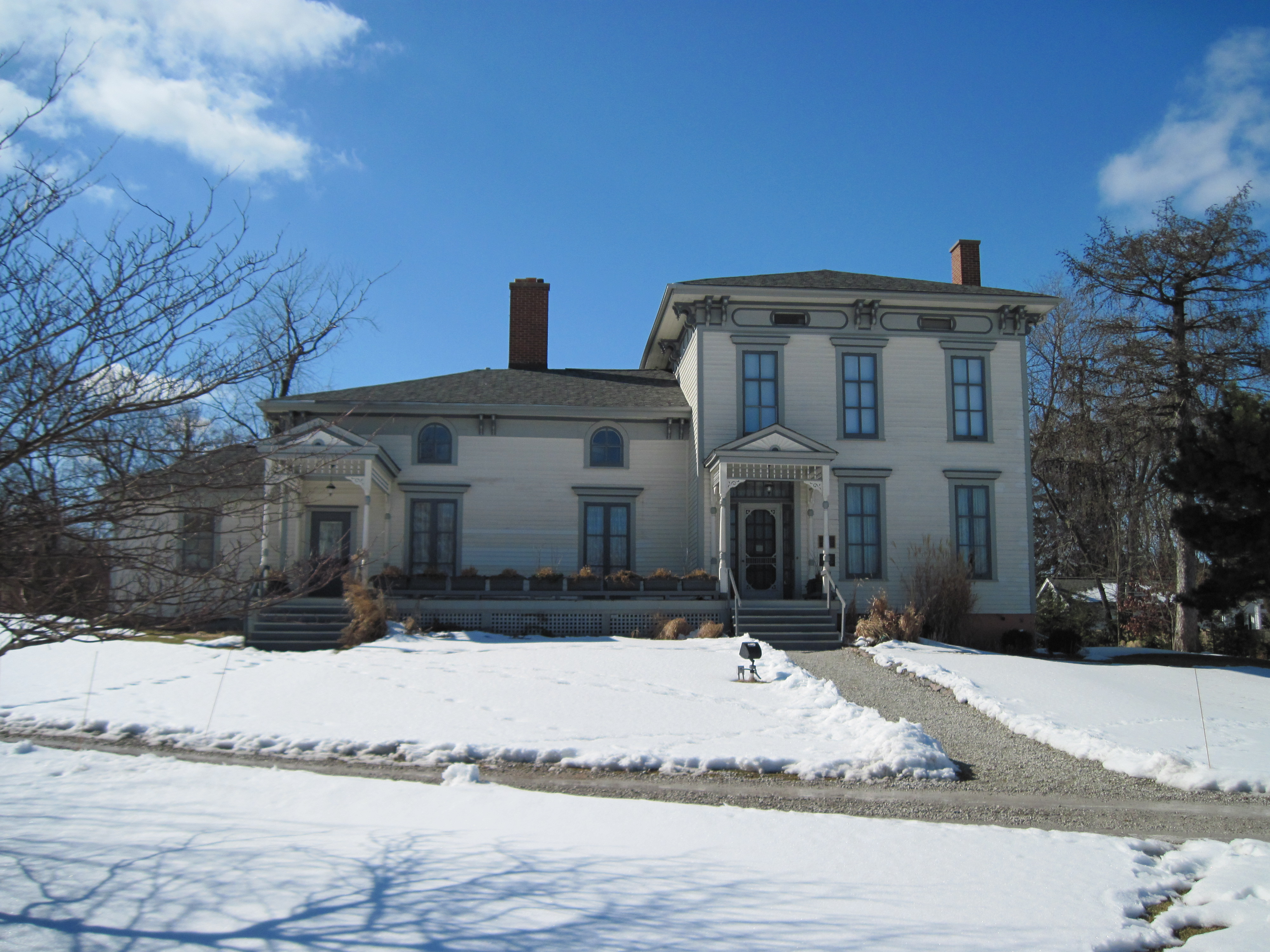 Exterior of the Noble-Seymour-Crippen house in Chicago.